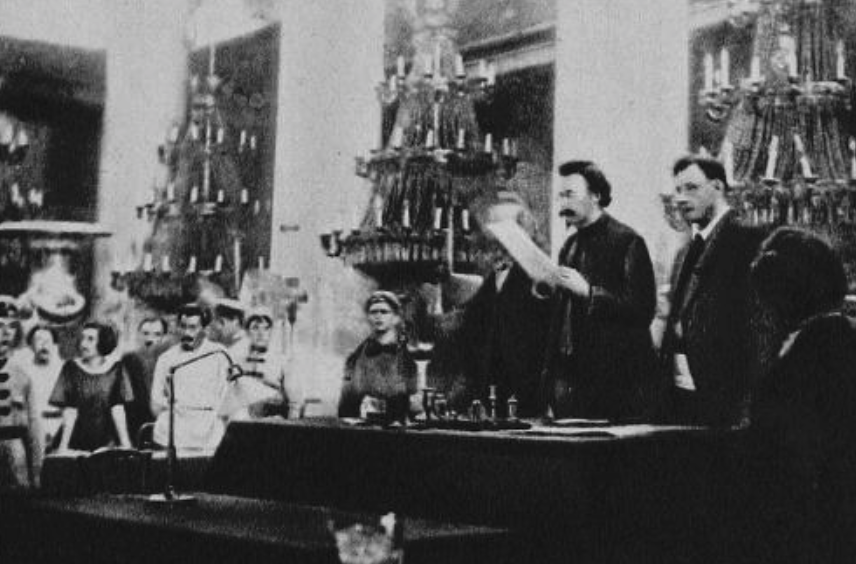 Man reading declaration standing before a desk in a courtroom